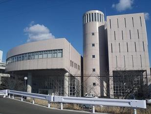 picture of the entrance of the Takamatsu university